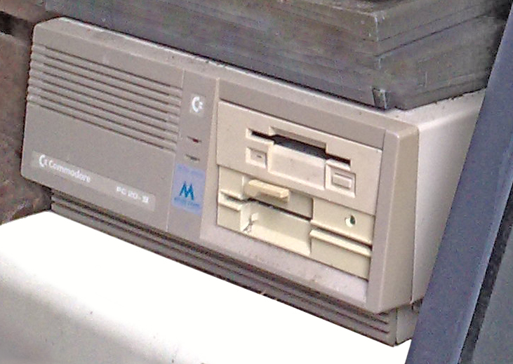 Commodore PC 20-II Computer. (Cropped from a larger photo of a pile of computer waste).